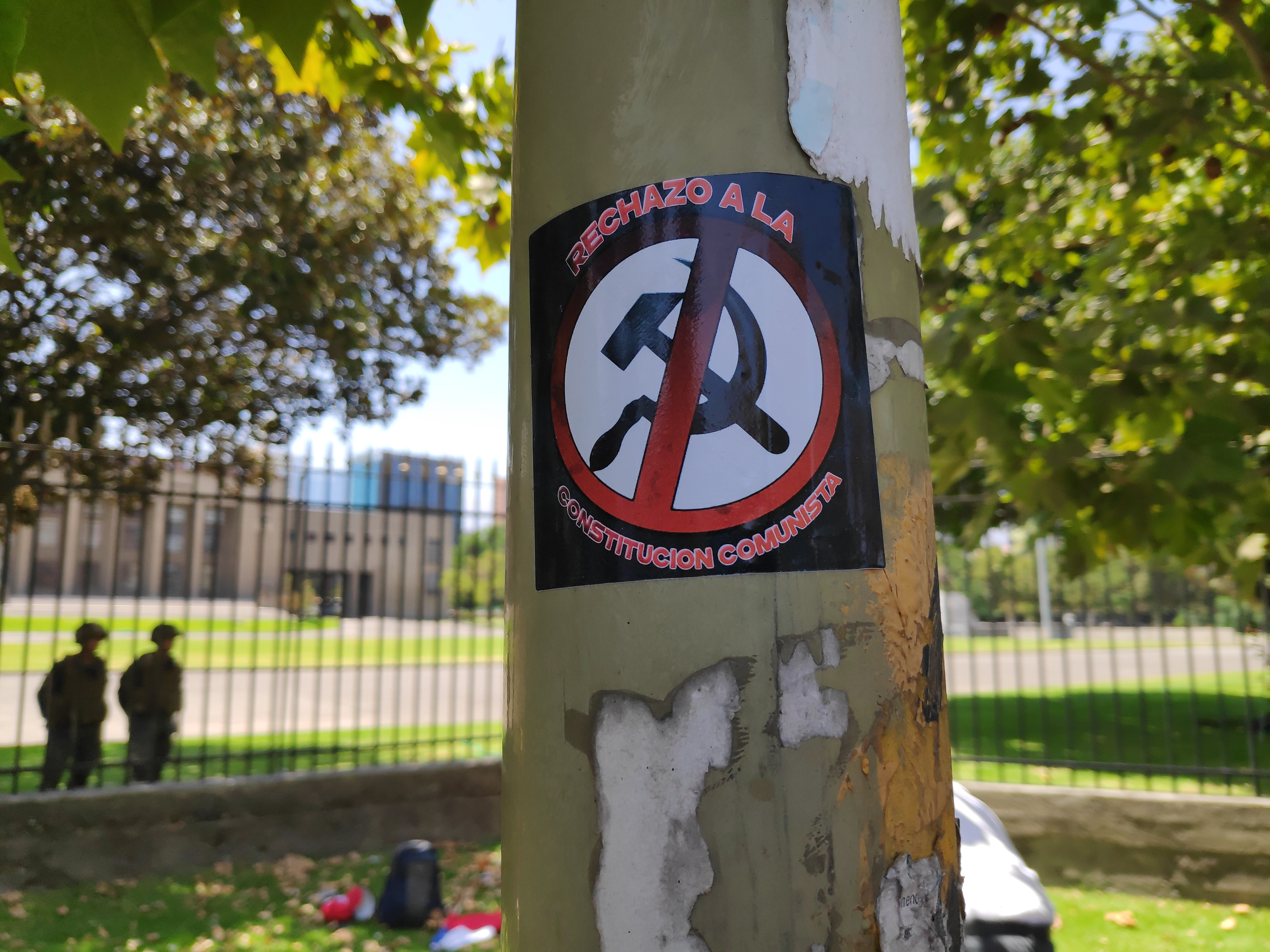 Sticker alluding to the option of Rejection of the 2020 Chilean national plebiscite on the outskirts of the Military School.